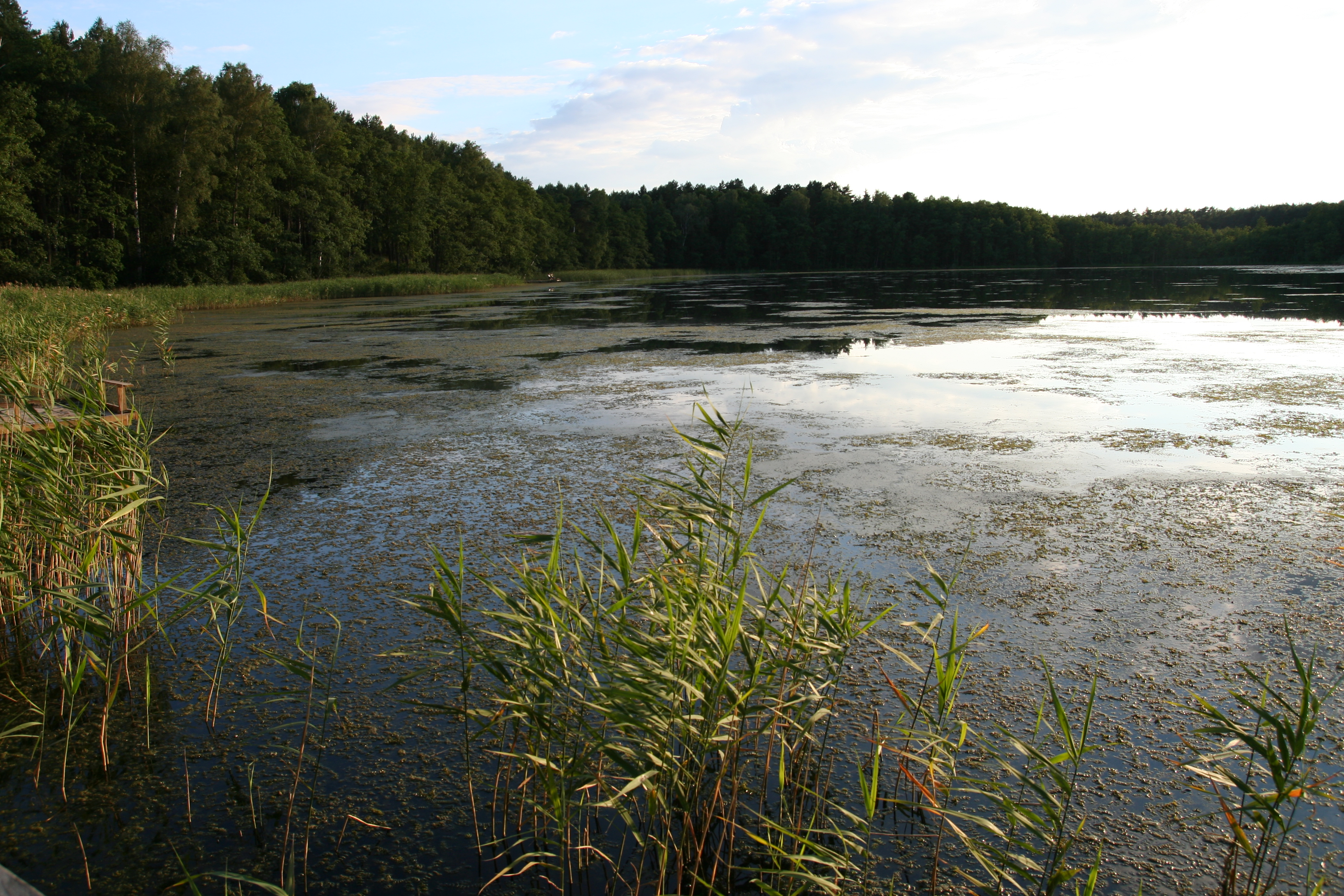 Wielka Szczekowa lake near Międzychód